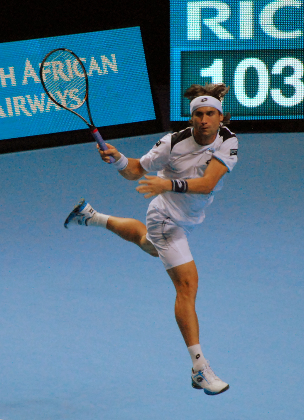 David Ferrer during his semi-final against Roger Federer in the ATP World Tour Finals 2011. Federer won 7-5, 6-3, and went on to beat Jo-Wilfried Tsonga in the final.